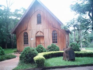 Reproduction in scale 2:3 of the first chapel of the city of Londrina. On the campus of Universidade Estadual de Londrina.